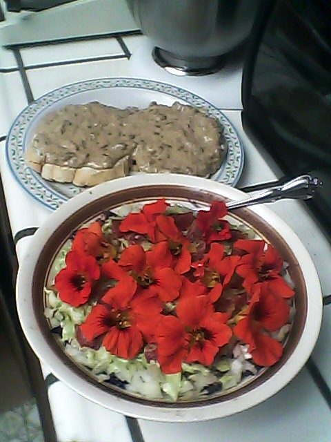 As Compliment to a Meal In Salad